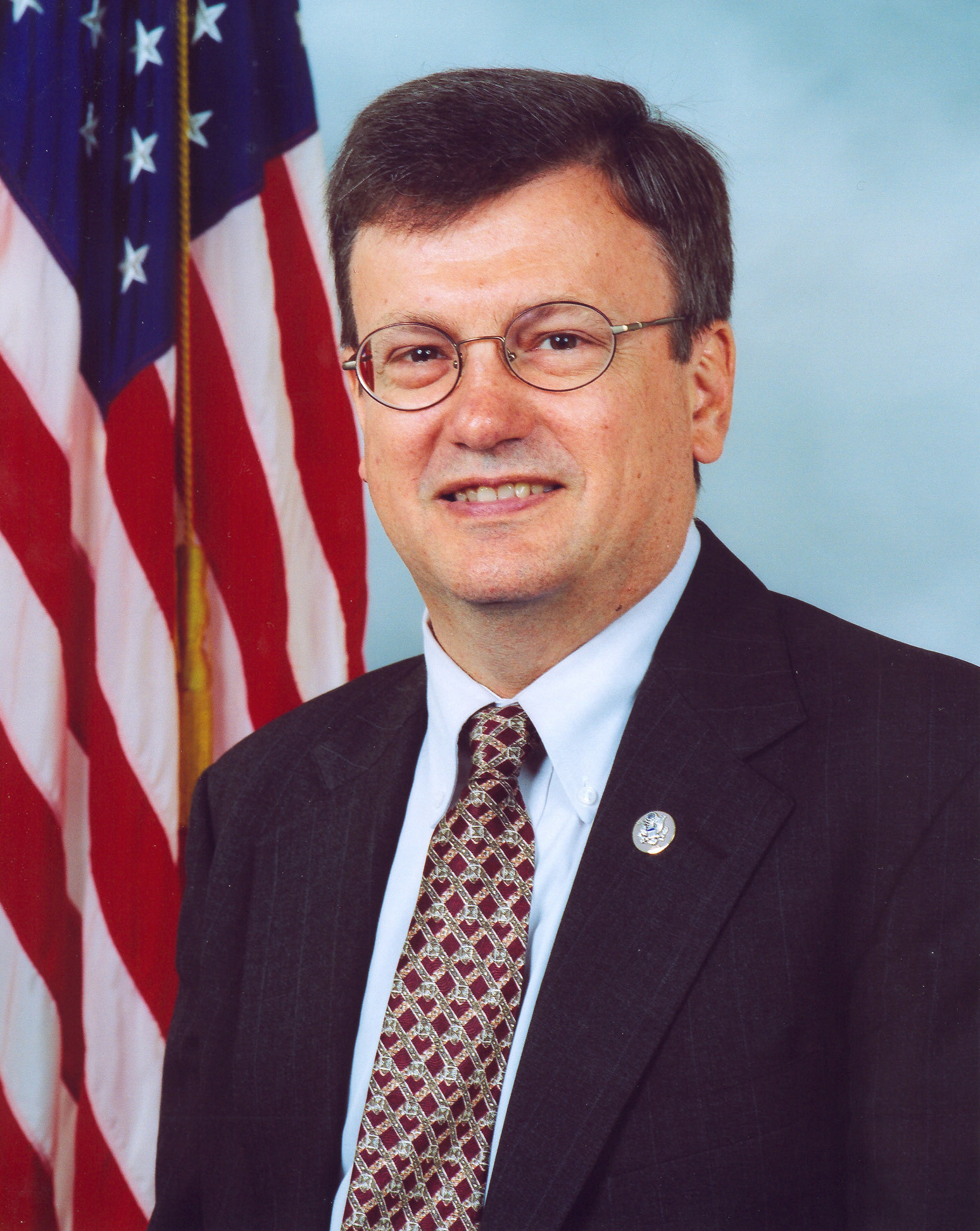 Mark Souder, member of the United States House of Representatives.